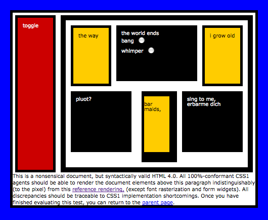 Firefox rendering of Acid 1 Browsertest